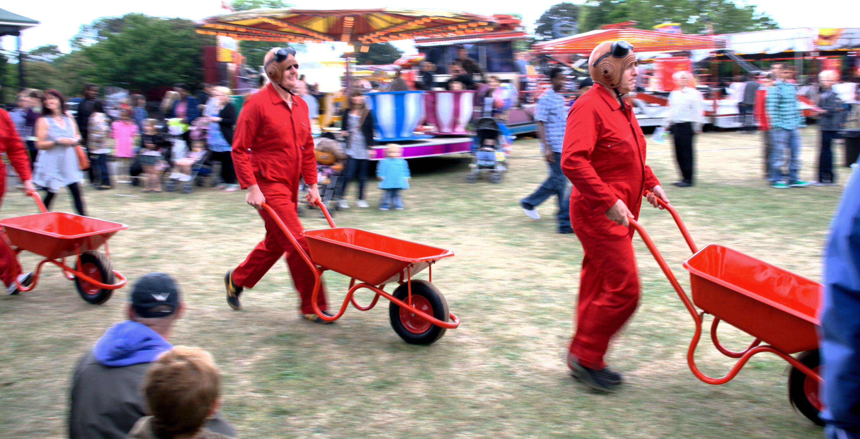 Hanwell's very own Red bArrows on their low level approach to the agrobatic (from Gr: agros=field and Gr:akrobatēs = walking on tiptoe) display area at the Hanwell Carnival 2010. Their Mach Number, when adjusted for Standard Temperature, Pressure and Elevation, and taking into account gusty crosswinds of 25 knots, made their true ground speed equal to almost 8 mph. Although the Elthorne Park venue is situated 78 feet above mean sea level, the team were able to maintained a QFE of exactly zero throughout their entire performance. No ozone was harmed during the filming of this event.